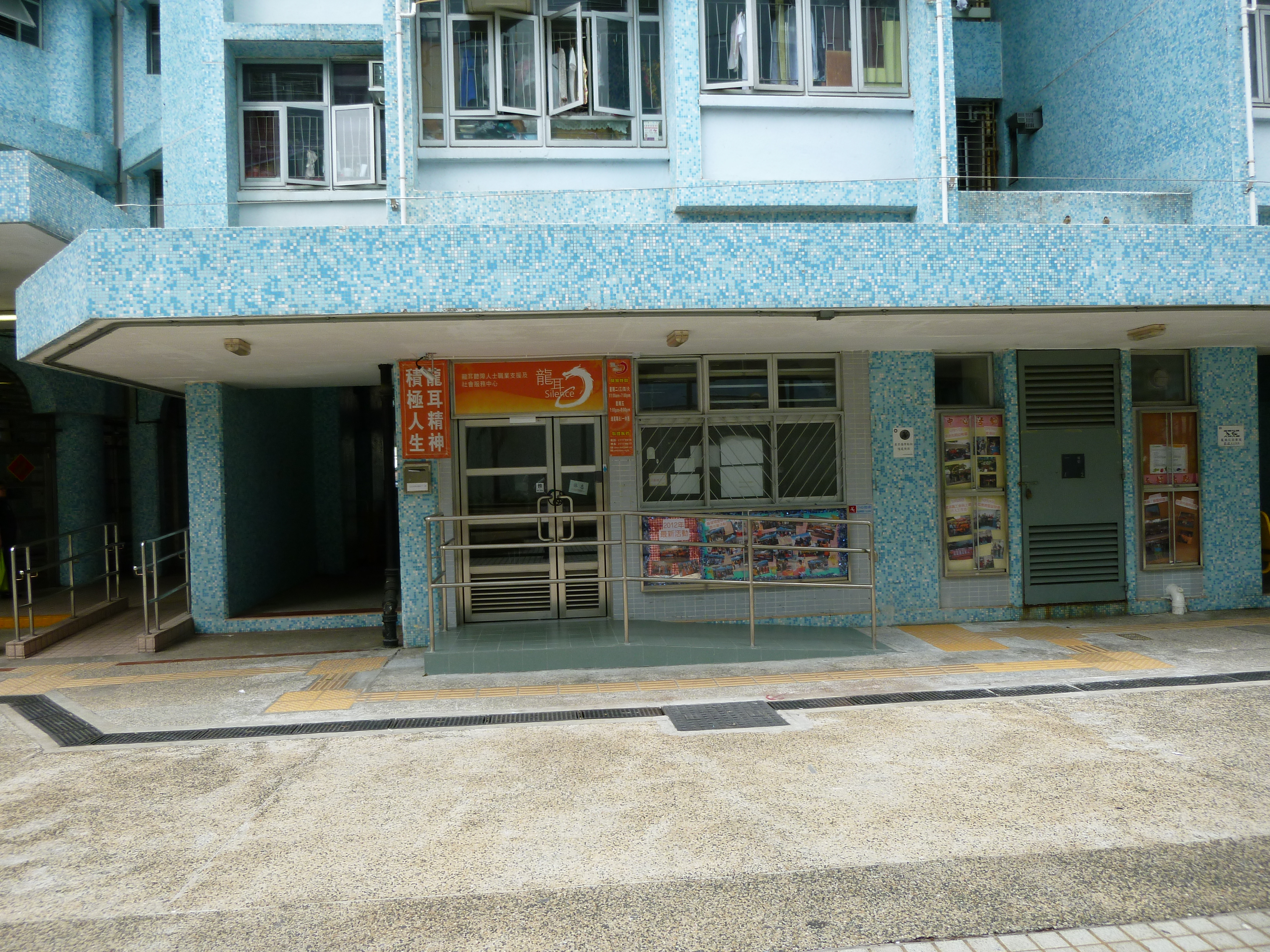 Silence Association (G01, G/F, Tsui Tin House, Pak Tin Estate, Shek Kip Mei, Kowloon, Hong Kong)